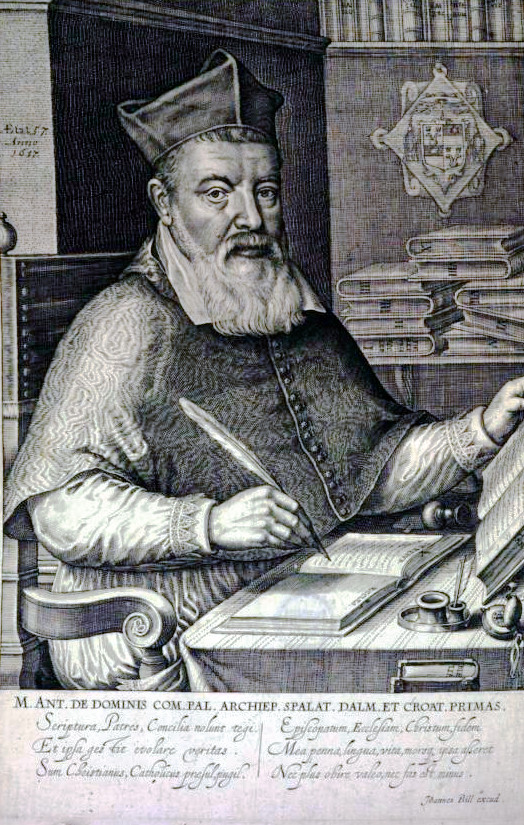 Marco Antonio de Dominis, Archbishop of Spalato, Cratian cleric, theologian and scientist.